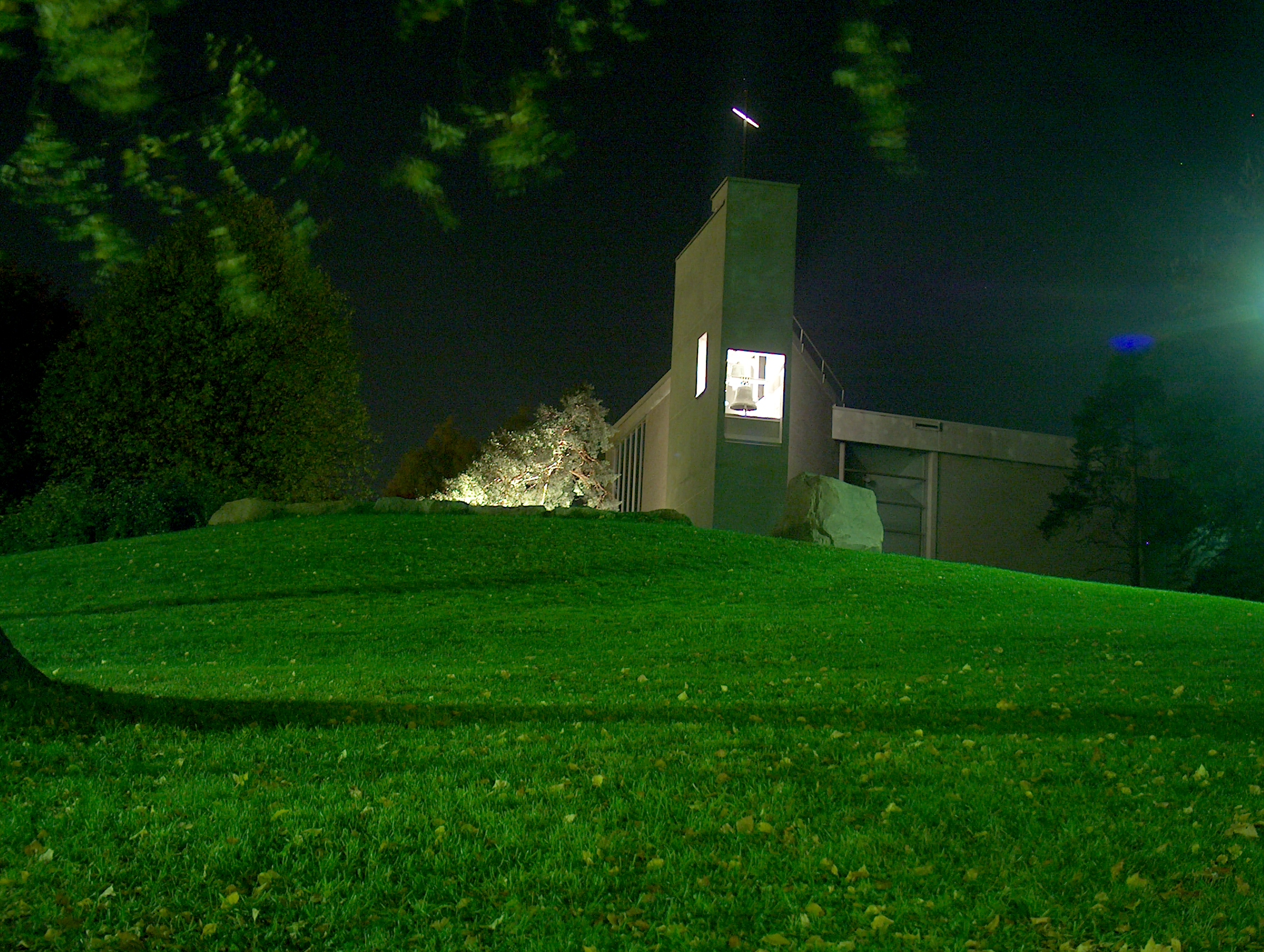 Kerava Church in the evening seen from the South-East. The church was designed by architect Ahti Korhonen and completed in 1963.